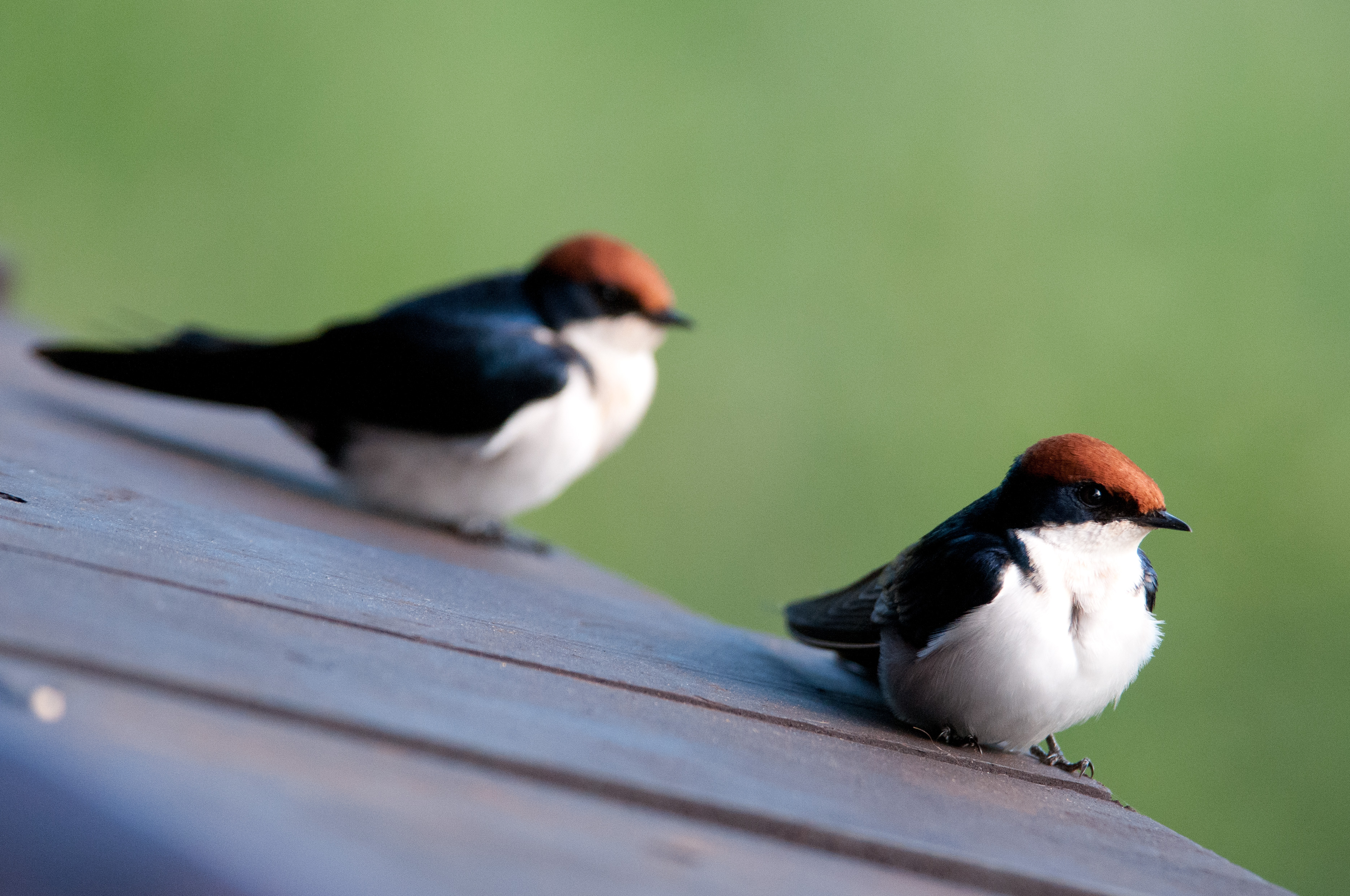 Wire-tailed Swallows Hirundo smithii smithii, Kruger National Park, South Africa